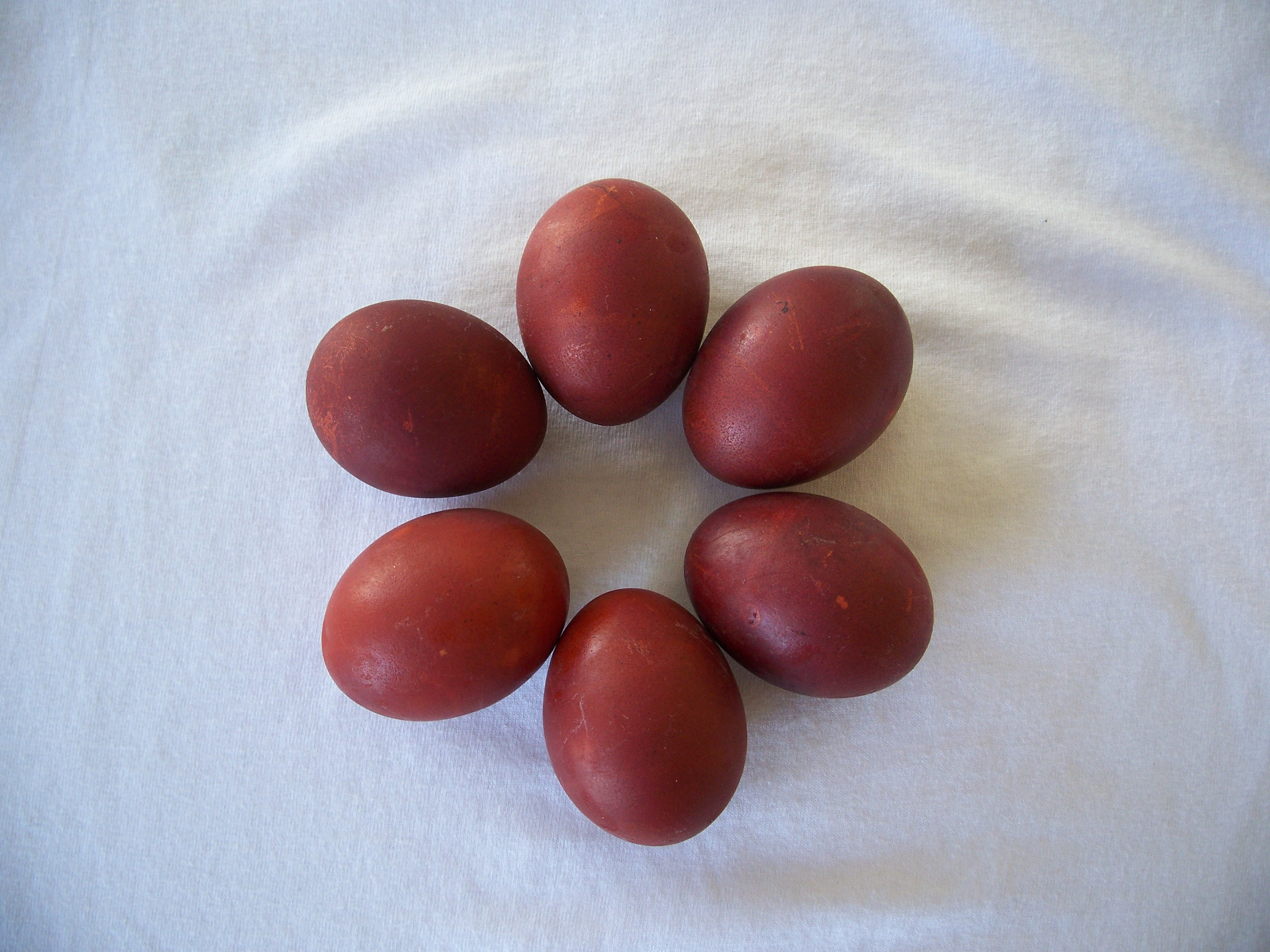 Onion husk painted Easter eggs